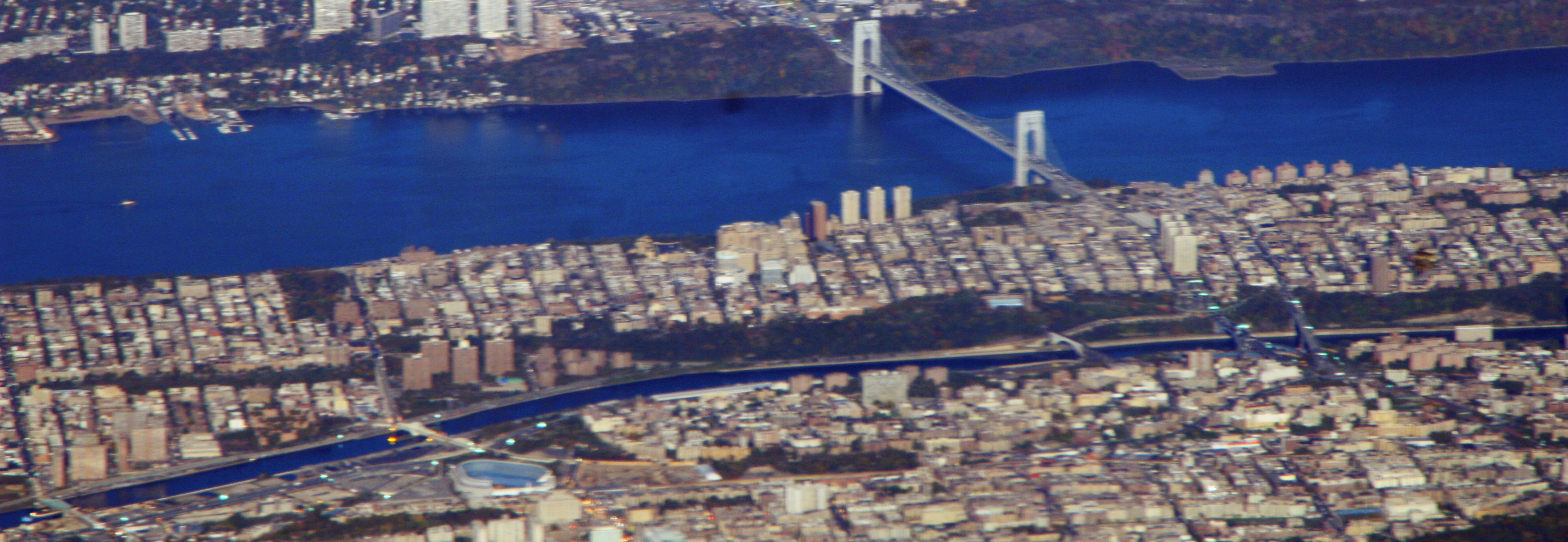 from top to bottom: New Jersey, Hudson River, Upper Manhattan, Harlem River, Bronx